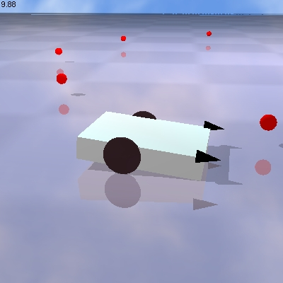 breve simulation; GPL; author Jon Klein